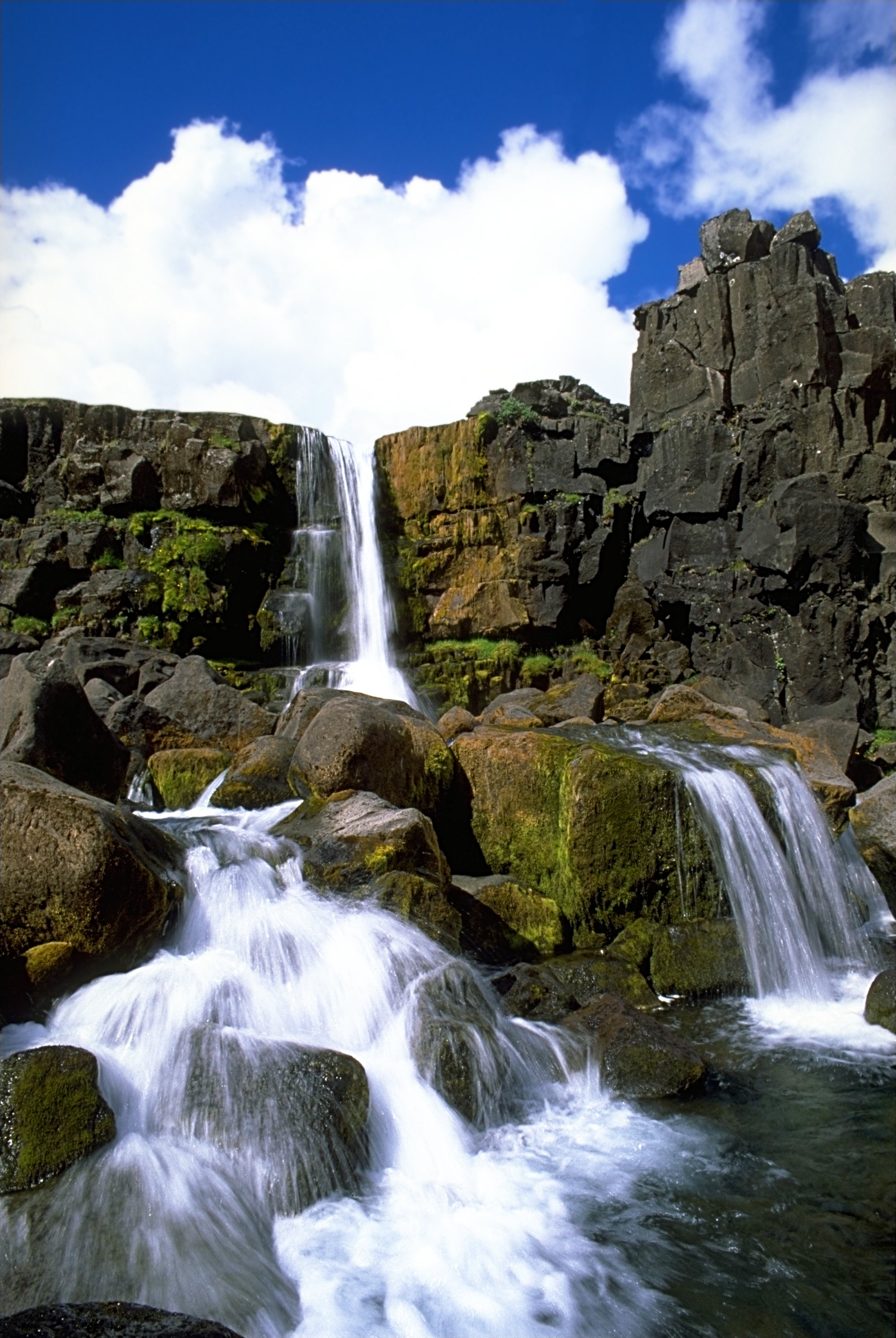 Canyon of Öxarárfoss, Þingvellir National Park, Iceland